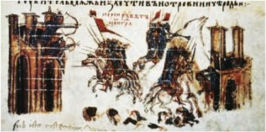 The illumnination represents the Siege of Constantinople in 626. by Persians and Avars